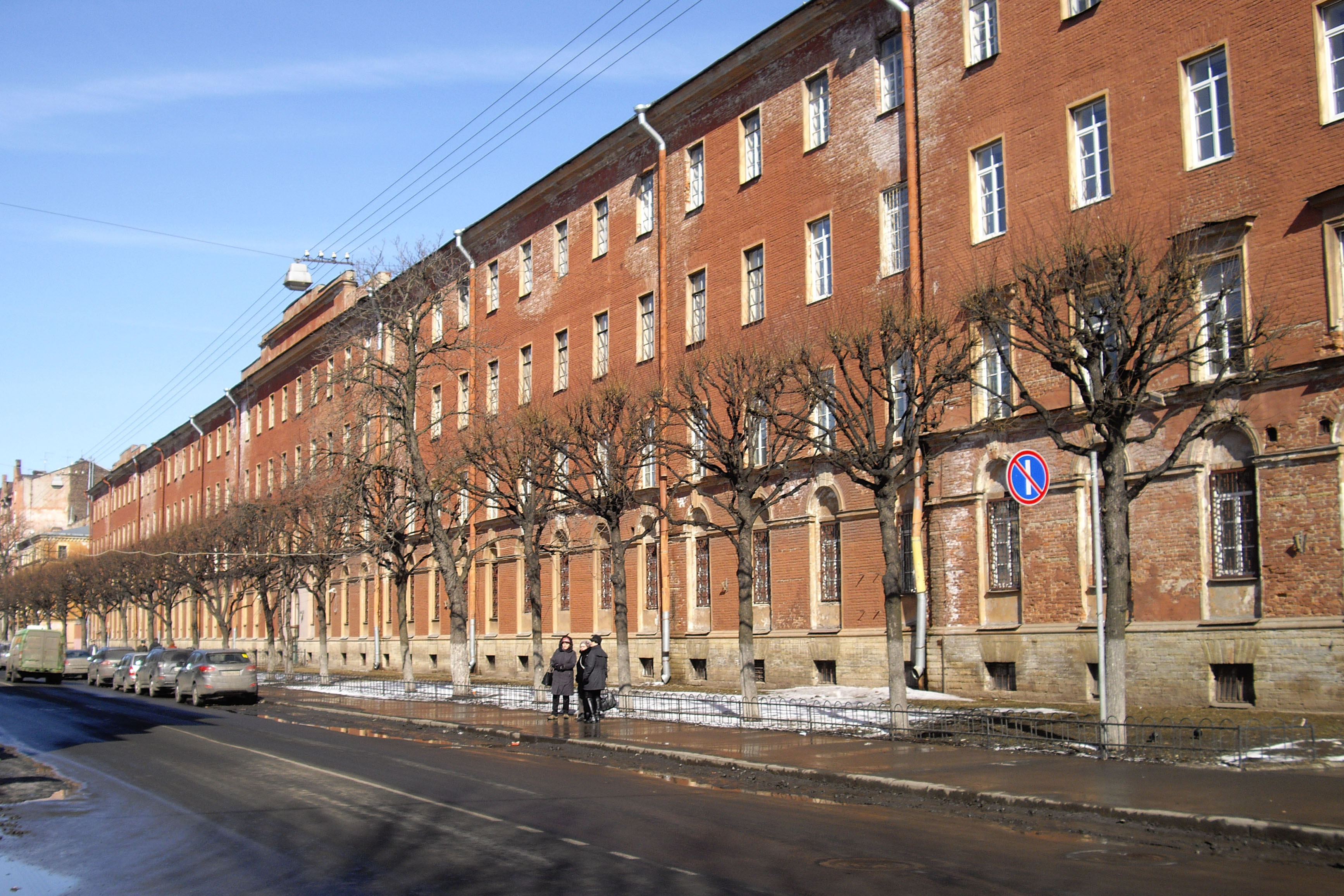 21, Krasnogo Kursanta Street, Saint Petersburg, Russia.